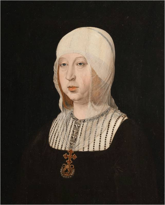 Portrait of the queen Isabella I of Castile (1451-1504), by Juan de Flandes.